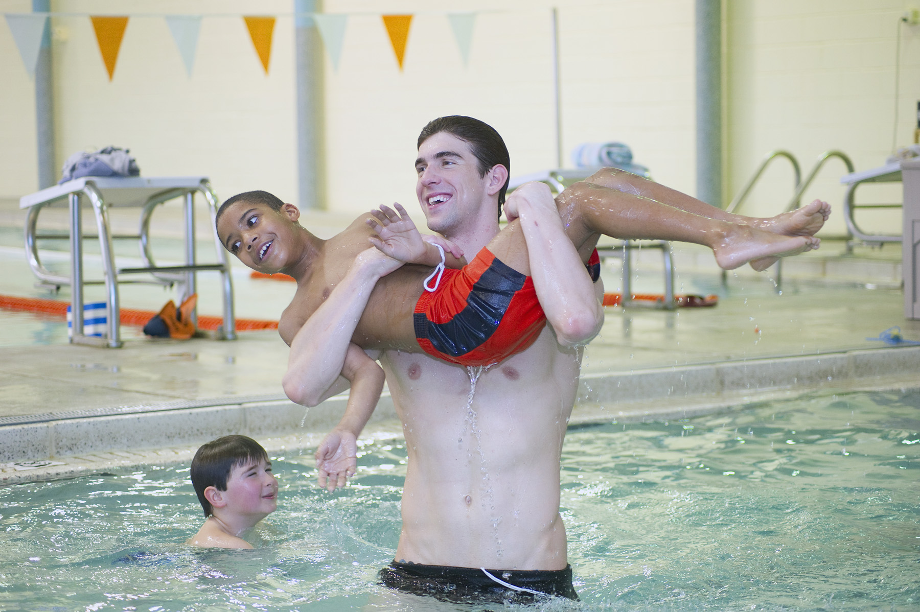 Michael Phelps with an im program participant during imfun activities.